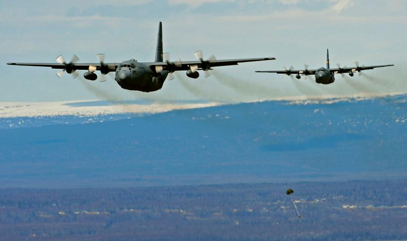 C-130s of the 537th Airlift Squadron fly an airdrop training mission near Joint Base Elmendorf-Richardson April 27, 2012